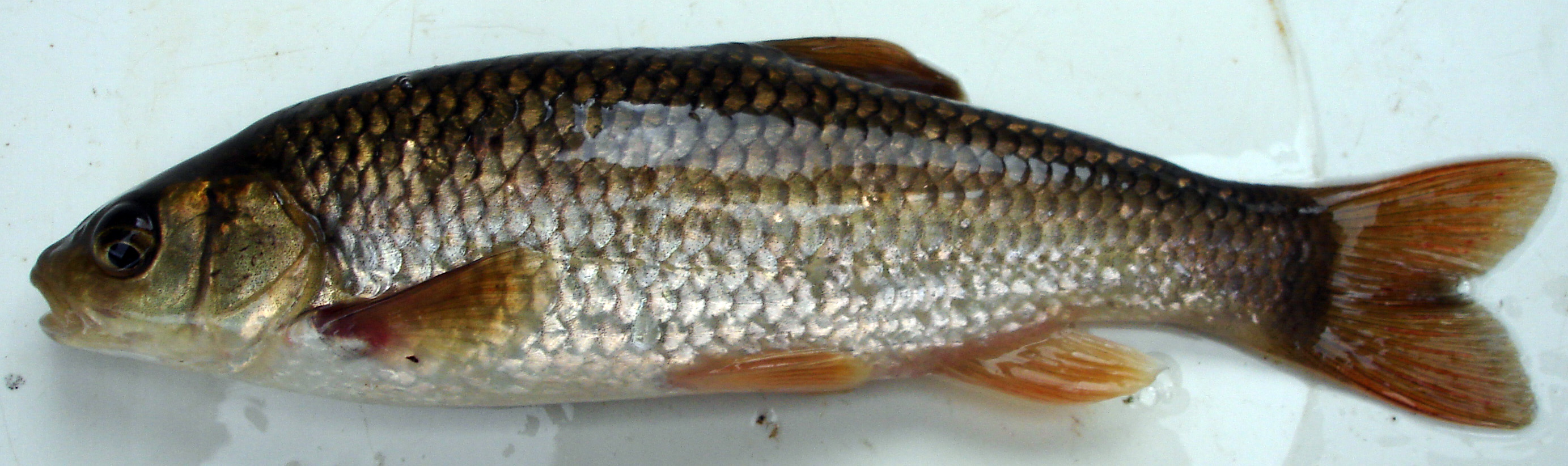 Squalius pyrenaicus in river Jerea. San Pantaleón de Losa (Burgos, Spain)